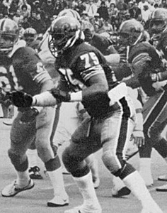 Jimbo Covert was a two-time first-team All-American (1981 and 1982) for the University of Pittsburgh Panthers football team. Photo is from the 1980 season when Covert was a redshirt sophmore.